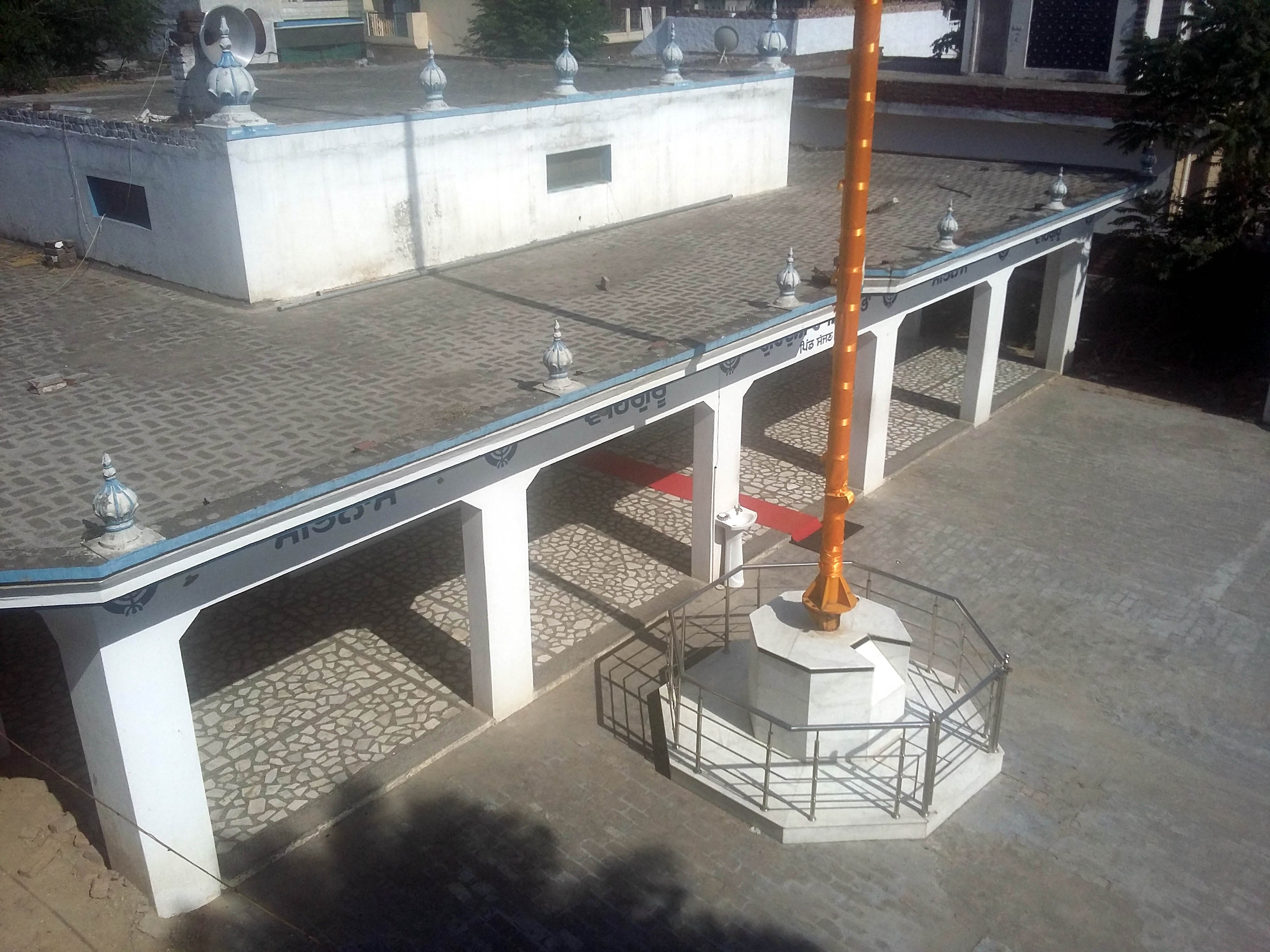 gurudwara sajjana